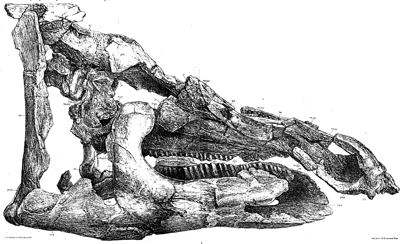 Drawing of lectoholotype skull BMNH R.3386 (desigated by Weishampel et al., 1993)[1][2] of Limnosaurus transsylvanicus NOPCSA 1900 (later renamed Telmatosaurus transsylvanicus), a basal hadrosaurid dinosaur from the Late Maastrichtian (latest Upper Cretaceous) Sanpetru Formation of West Central Romania.